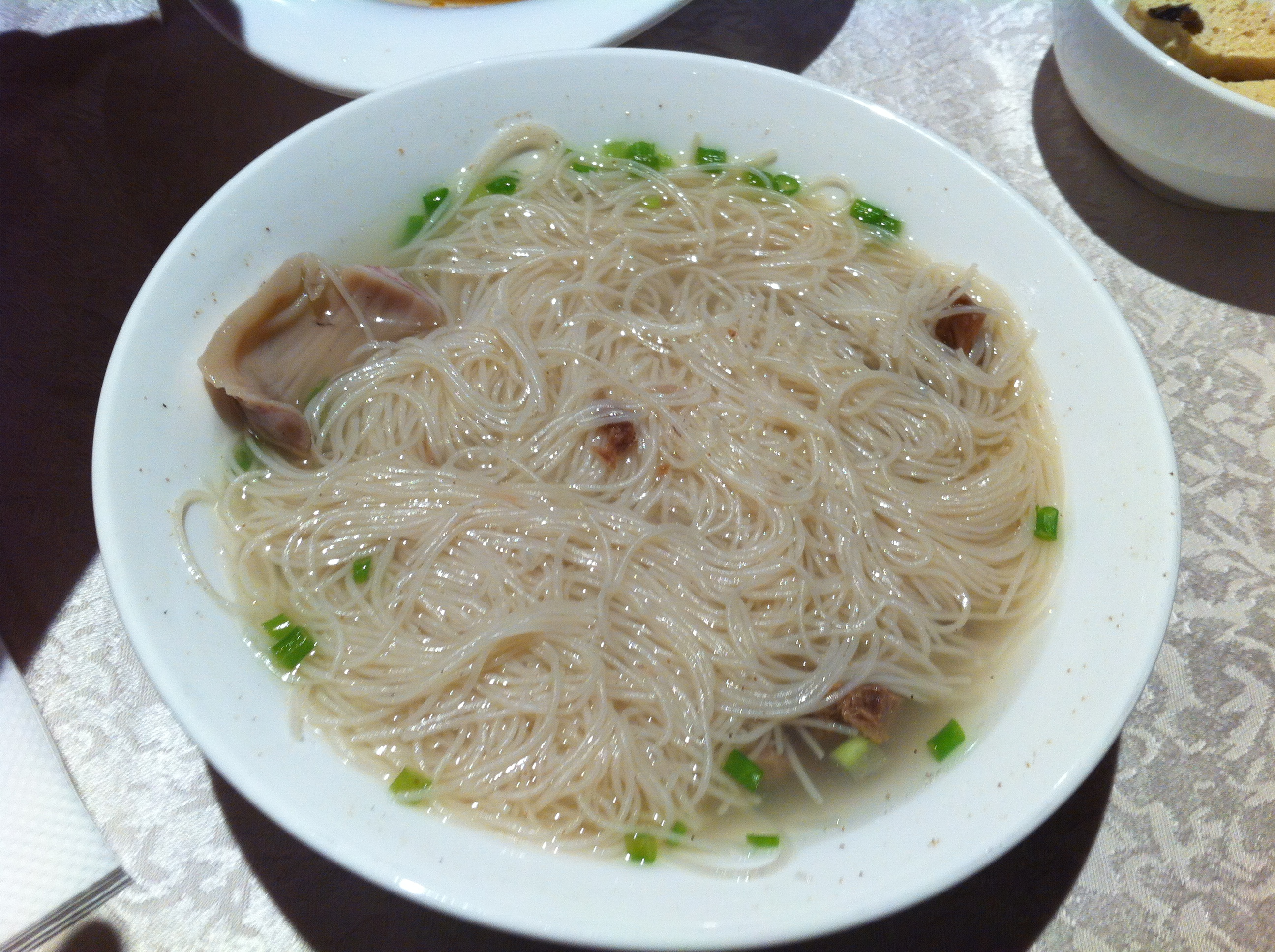 Xinghua rice noodles at the Fuzhou Association of Beijing.